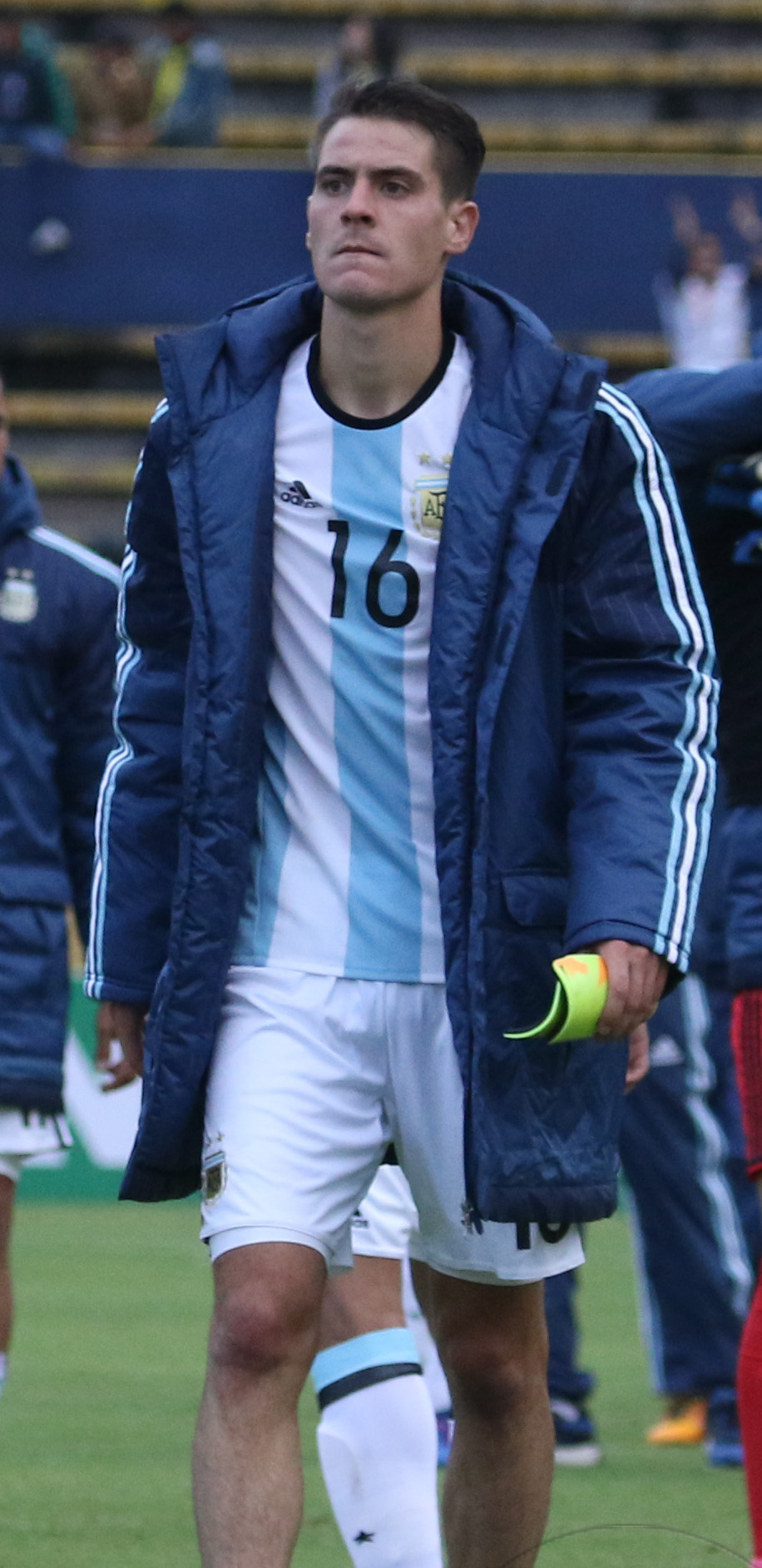 Quito, 2 de febrero del 2017 (Andes).- La escuadra argentina necesitaba ante Colombia un buen resultado para sacudirse del 0-3 recibido en la primera fecha frente a Uruguay y lo consiguió con goles en el minuto uno y el 92, con los que venció 2-1 a Colombia en la segunda fecha del Sudamericano Sub 20 Ecuador 2017. ANDES/Micaela Ayala V. This file comes from the Flickr stream of the Public News Agency of Ecuador and South America and is copyrighted. This file is verified as being licenced under an appropriate Creative Commons licence. In short: you are free to modify the file as long as you attribute Photographer name/Andes and distribute it under the same licence. This tag does not indicate the copyright status of the attached work. A normal copyright tag is still required. See Commons:Licensing for more information. English | español | +/−